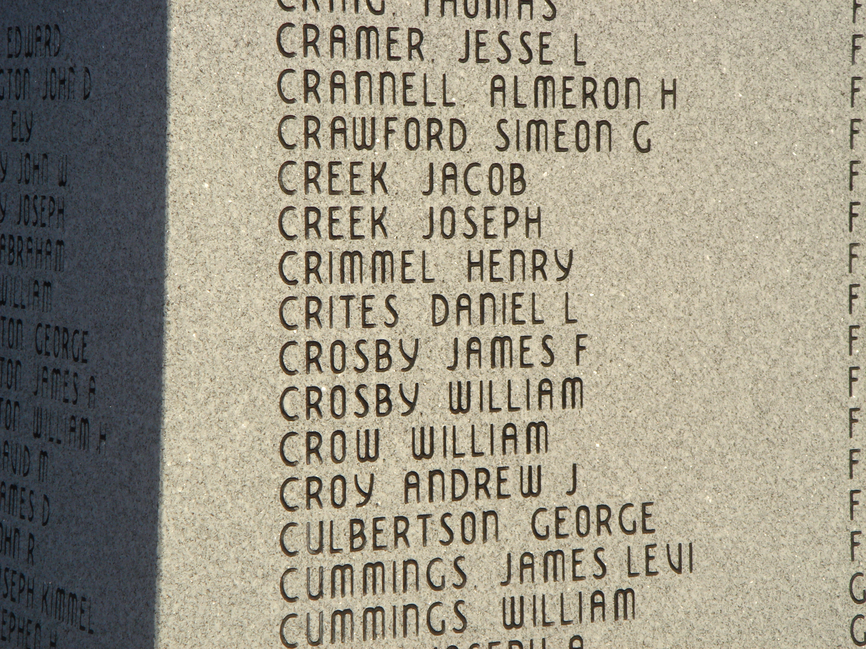 Henry Crimmel's name on monument in honor of Civil War Veterans of Blackford County in Hartford City, Indiana.